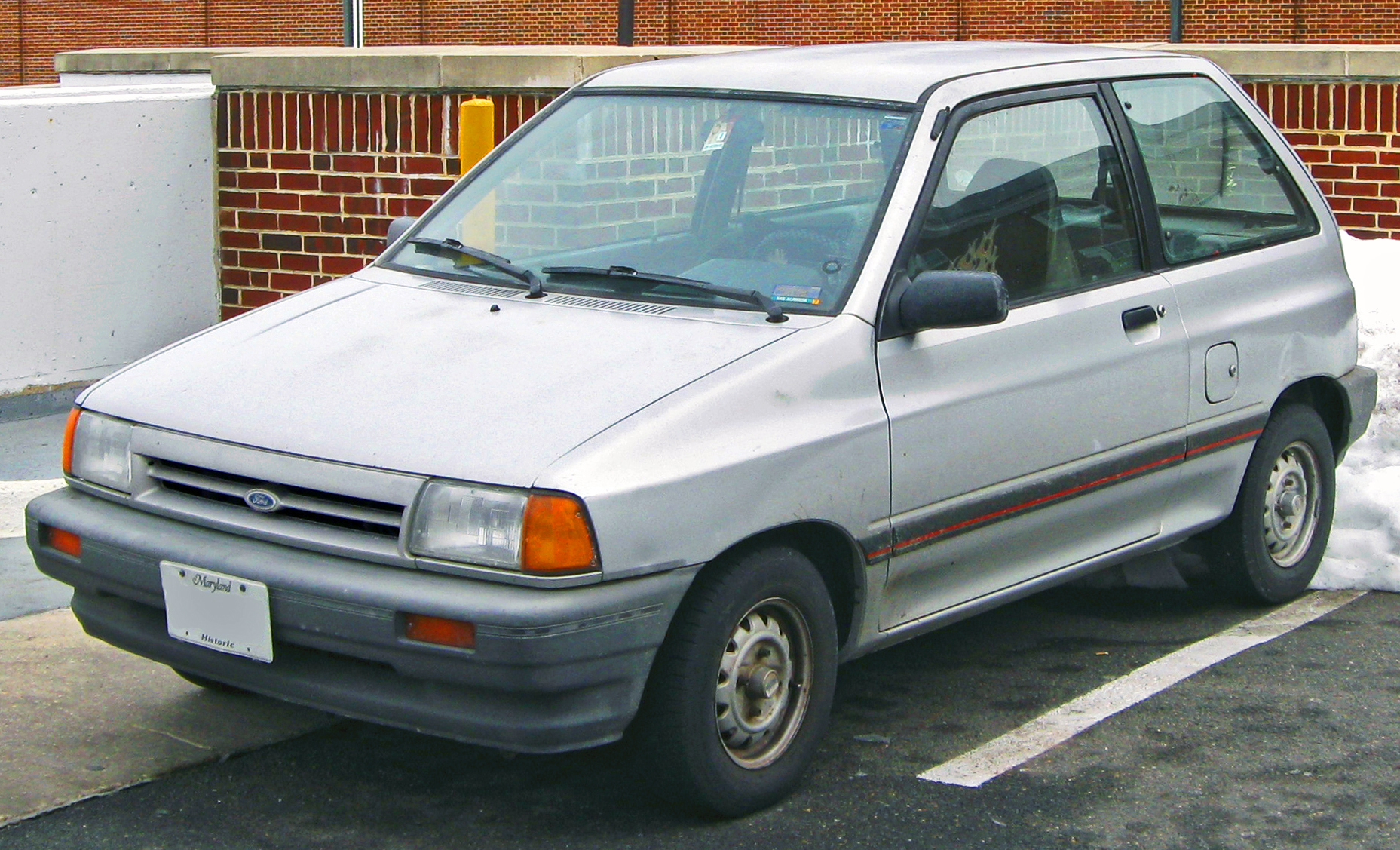 1988-1989 Ford Festiva photographed in College Park, Maryland, USA.